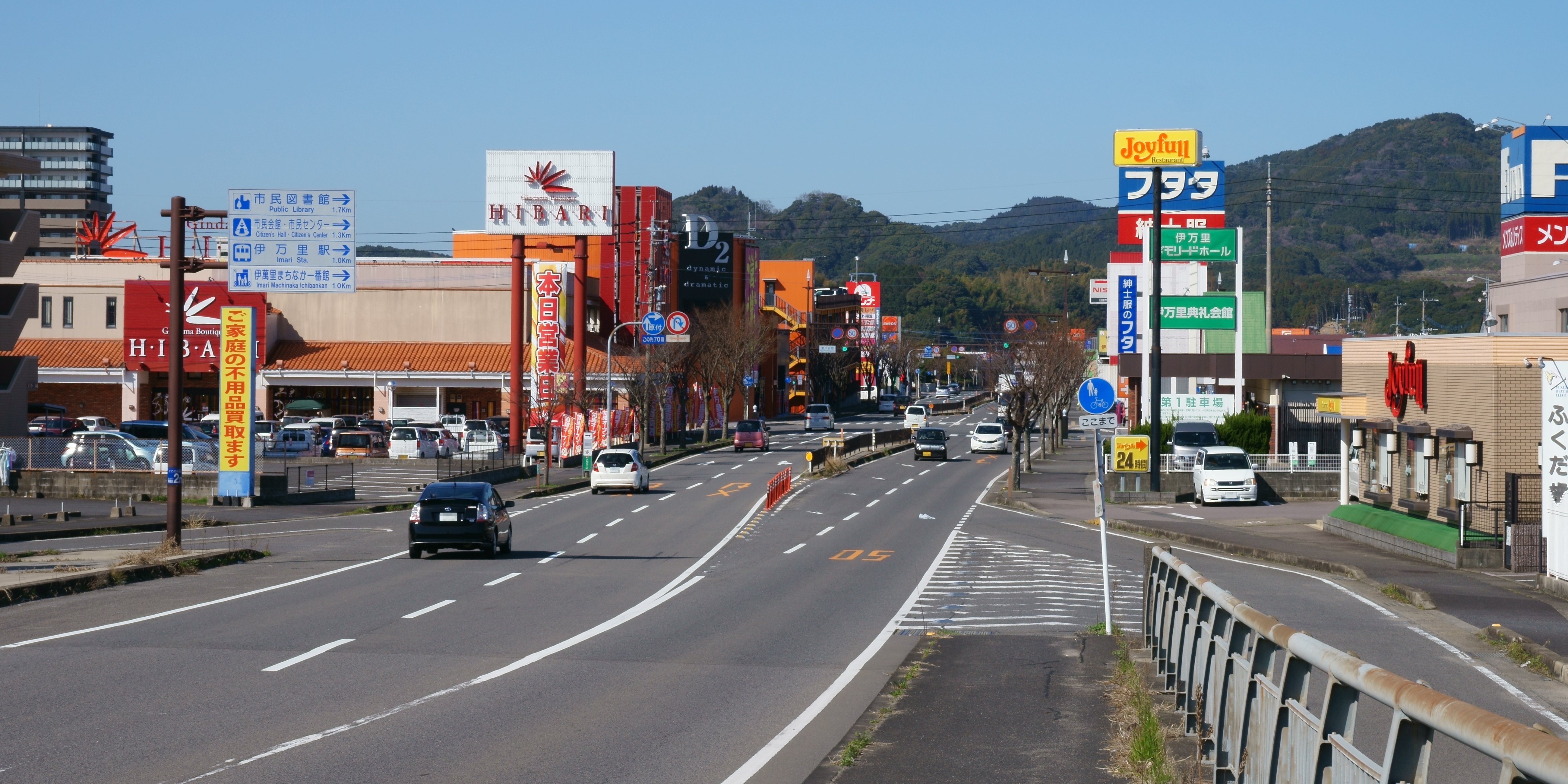 National Route No.204 (Seibu Bypass) in Hachiyagarami, Niri-chō, Imari city, Saga prefecture.